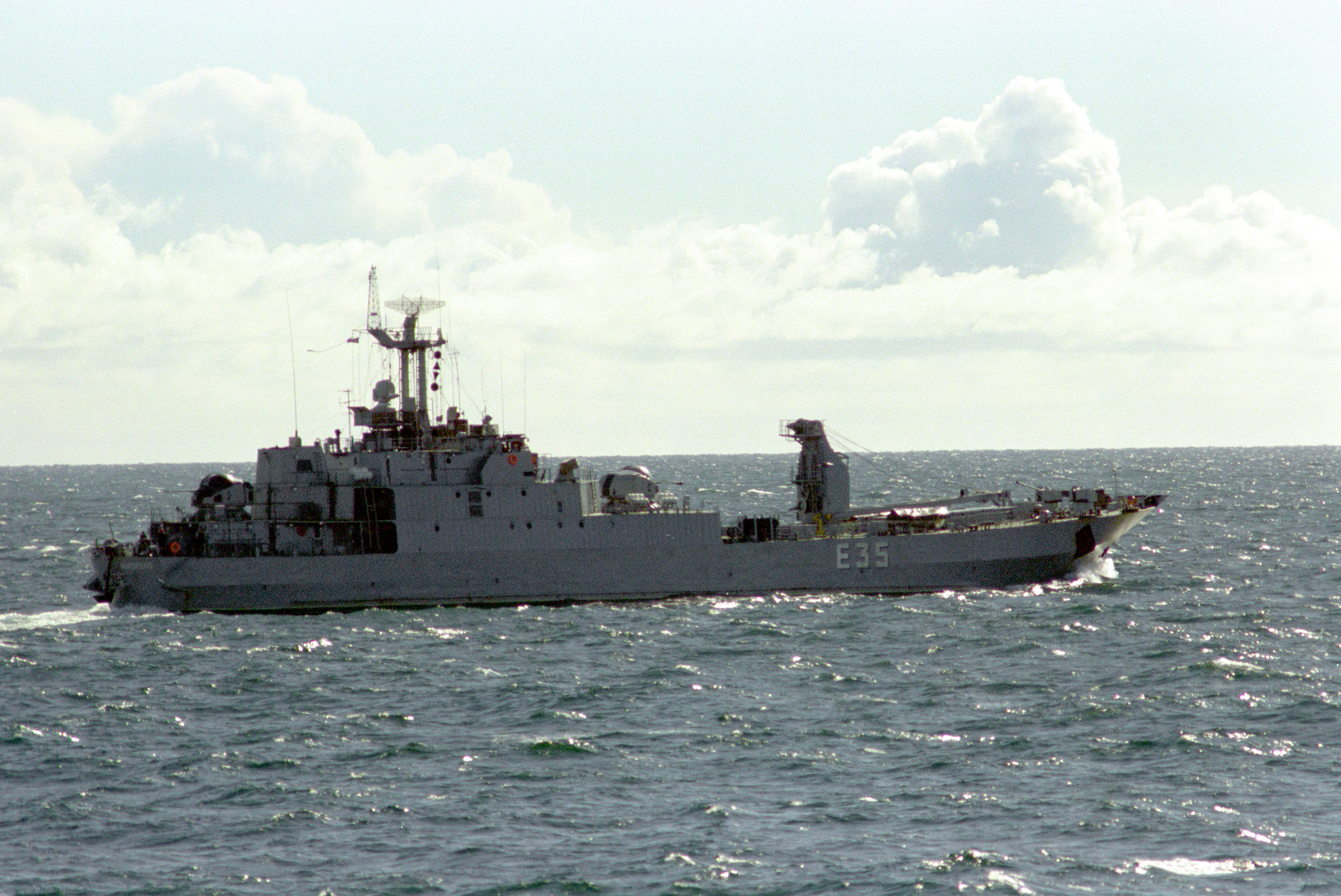 A starboard quarter view of the East German Frosch II class support ship NORDPERD (E-35) underway. The ship is observing NATO ships participating in exercise Northern Wedding '86.